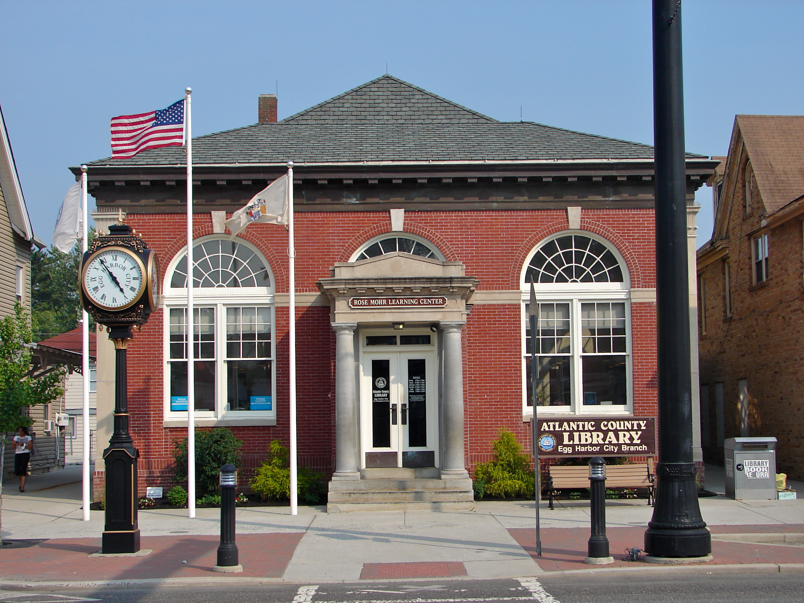 Egg Harbor Commercial Bank on the NRHP since August 28, 2007. At 134 Philadelphia Ave., Egg Harbor City, New Jersey. Now a branch of the Atlantic County Library